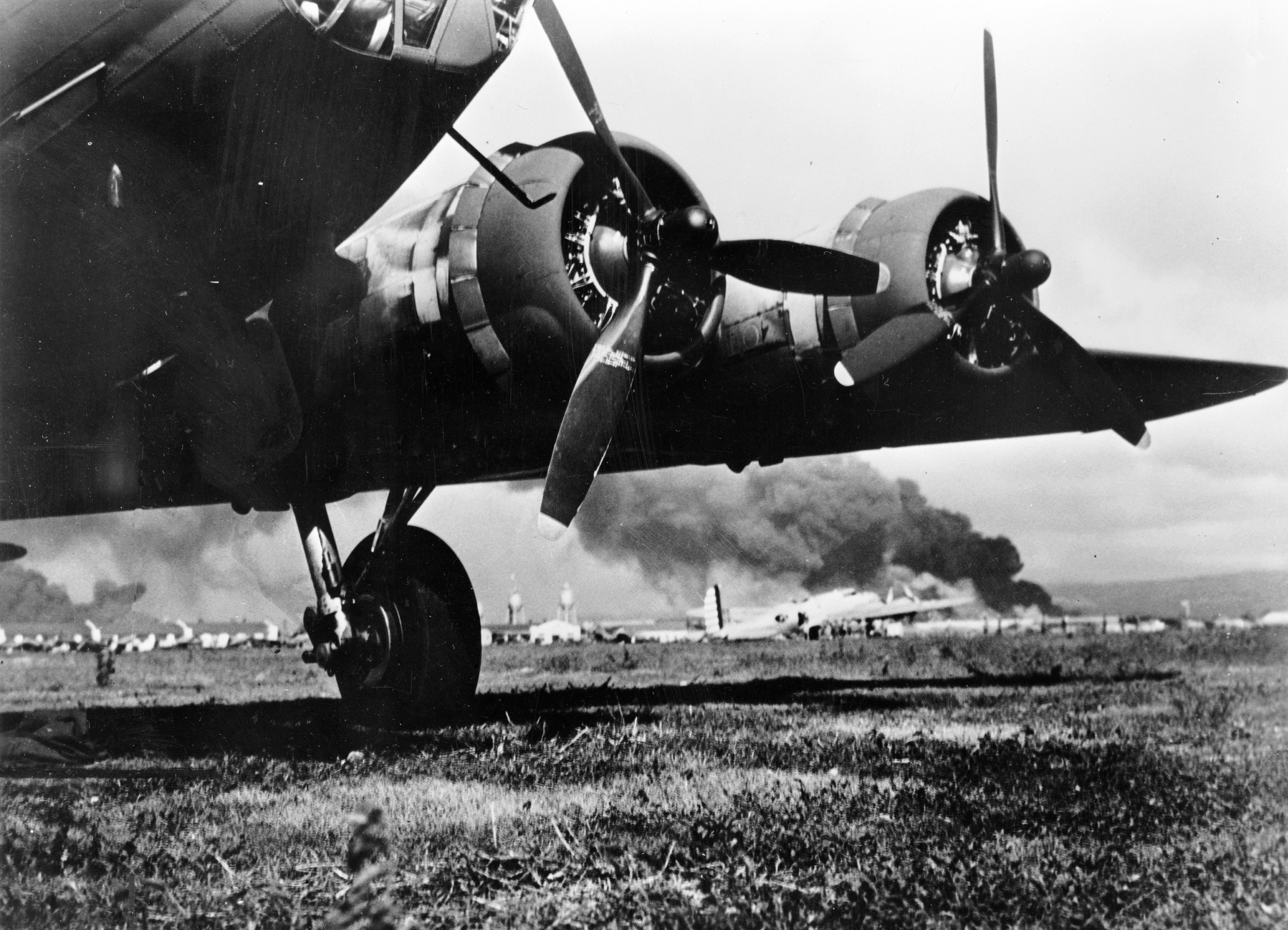 A photo taken at Hickam Air Base during the Japanese attack on 7 December 1941. A camouflaged Boeing B-17E Flying Fortress is in the foreground, a silver B-17D is visible in the background.